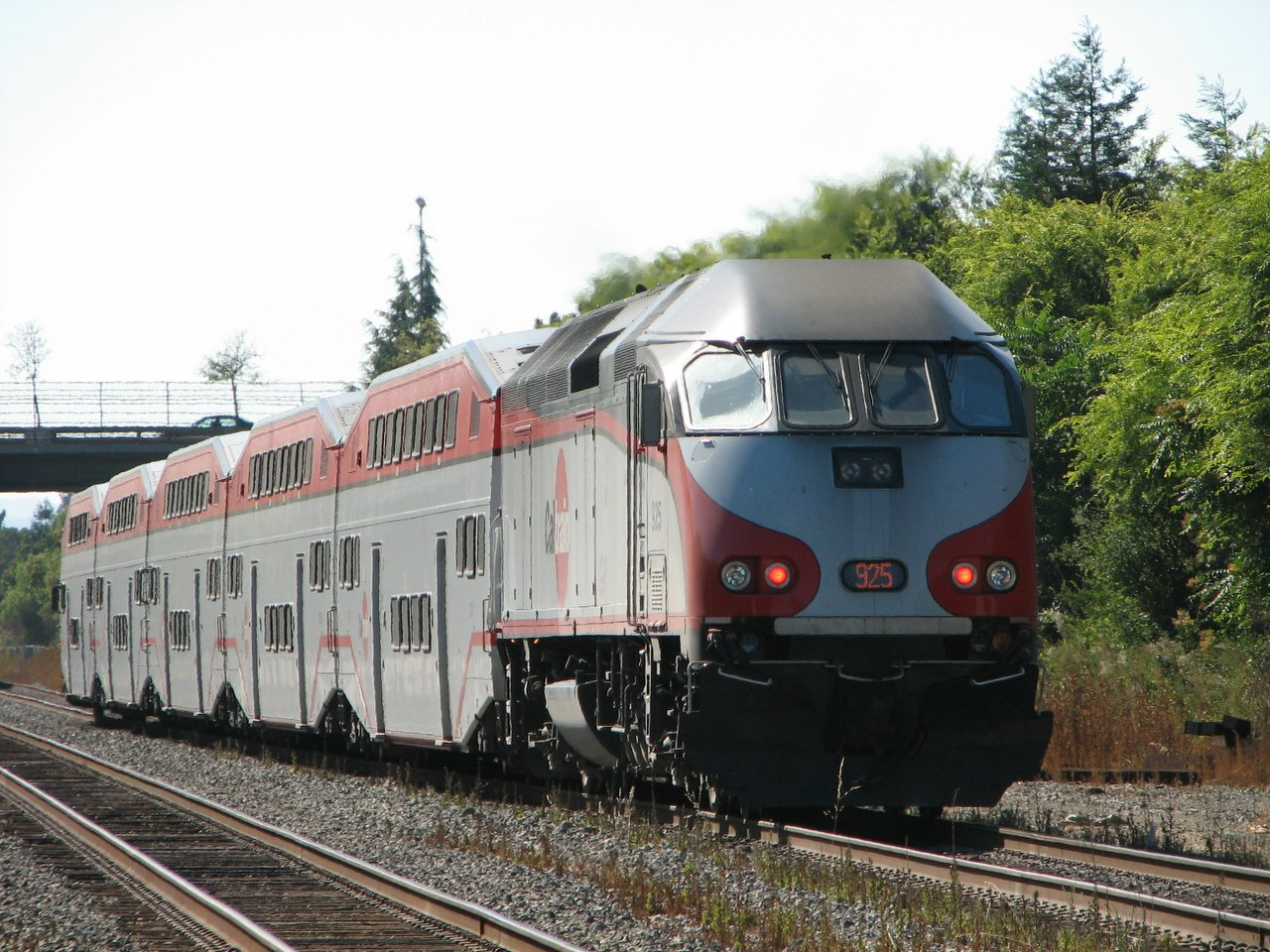 A Caltrain set headed by an MP36PH-3C locomotive passing under South Shoreline Boulevard in Mountain View, California in July 2005